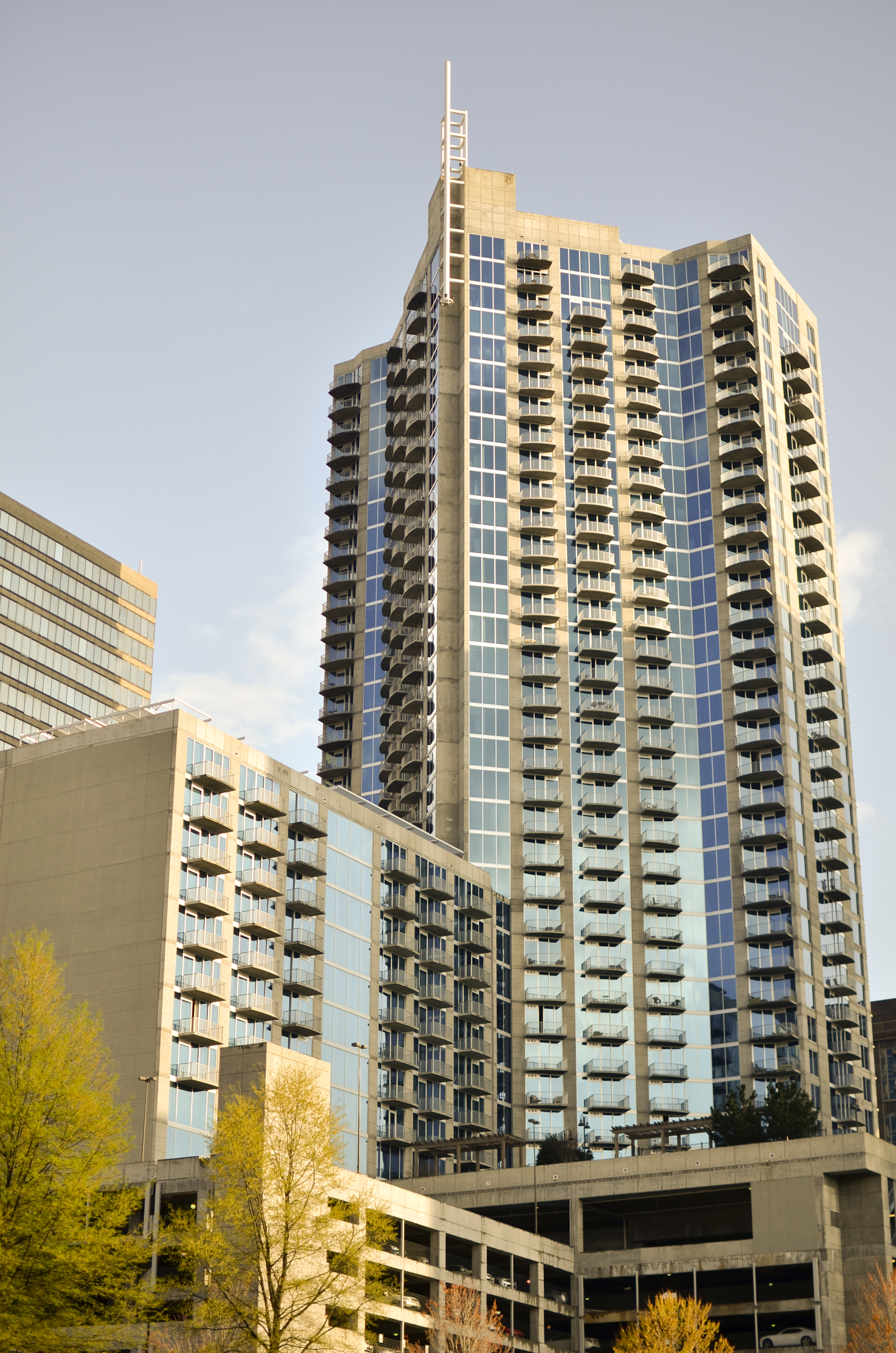 Harrison Krix - Volpin Props - Atlanta